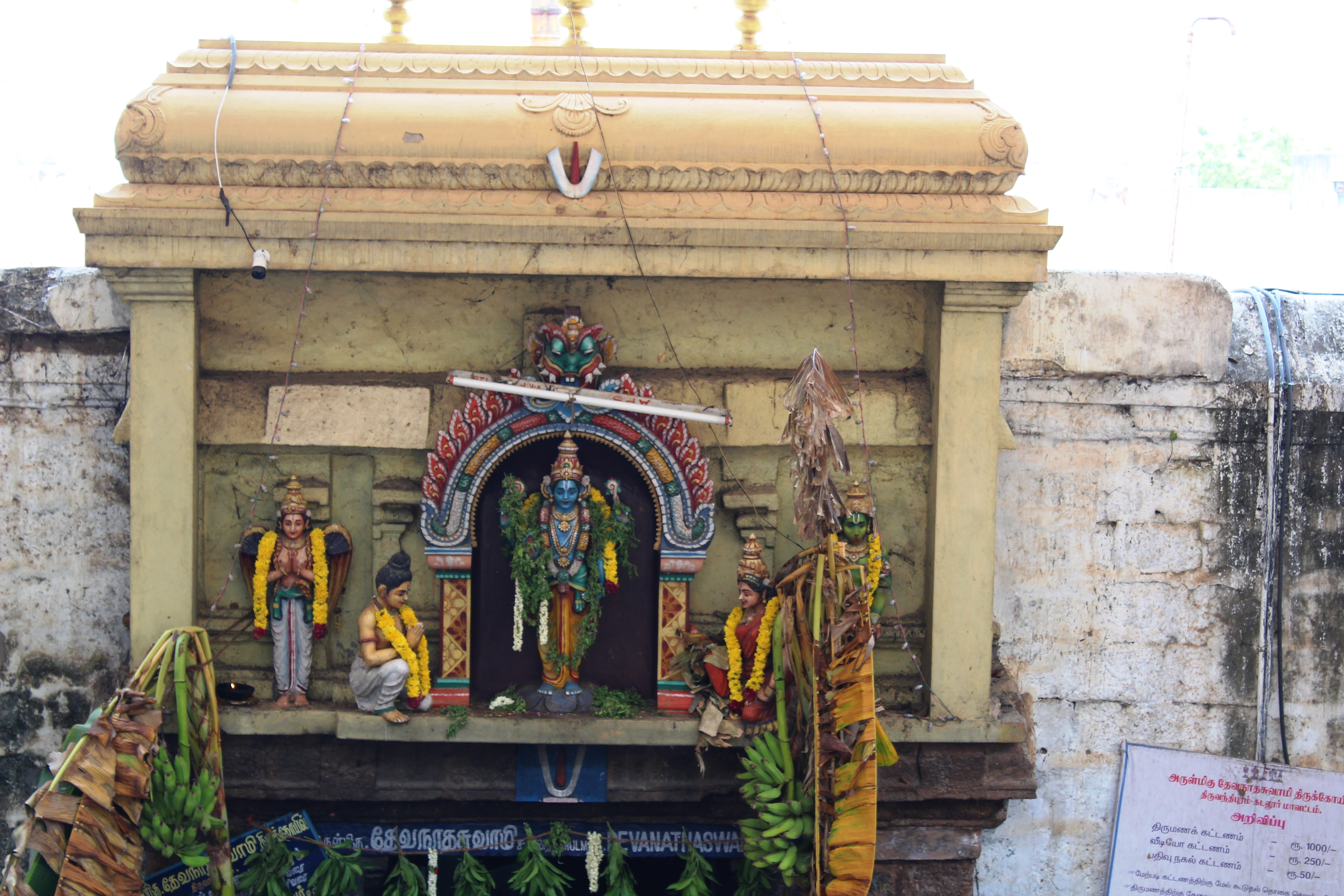 Devanathaswamy temple